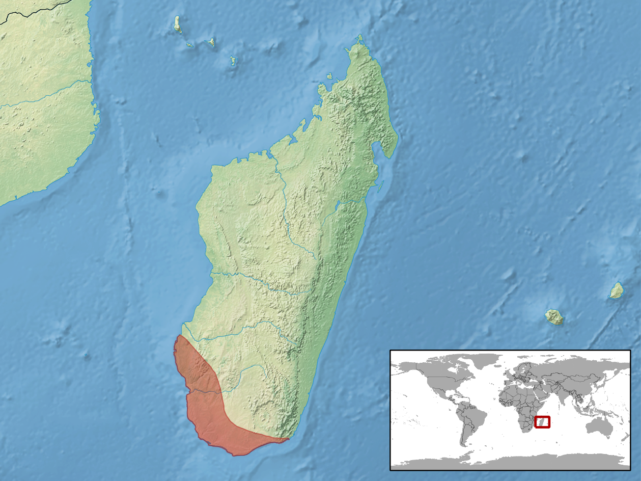 geographic distribution of Lygodactylus tuberosus (Native: Madagascar)